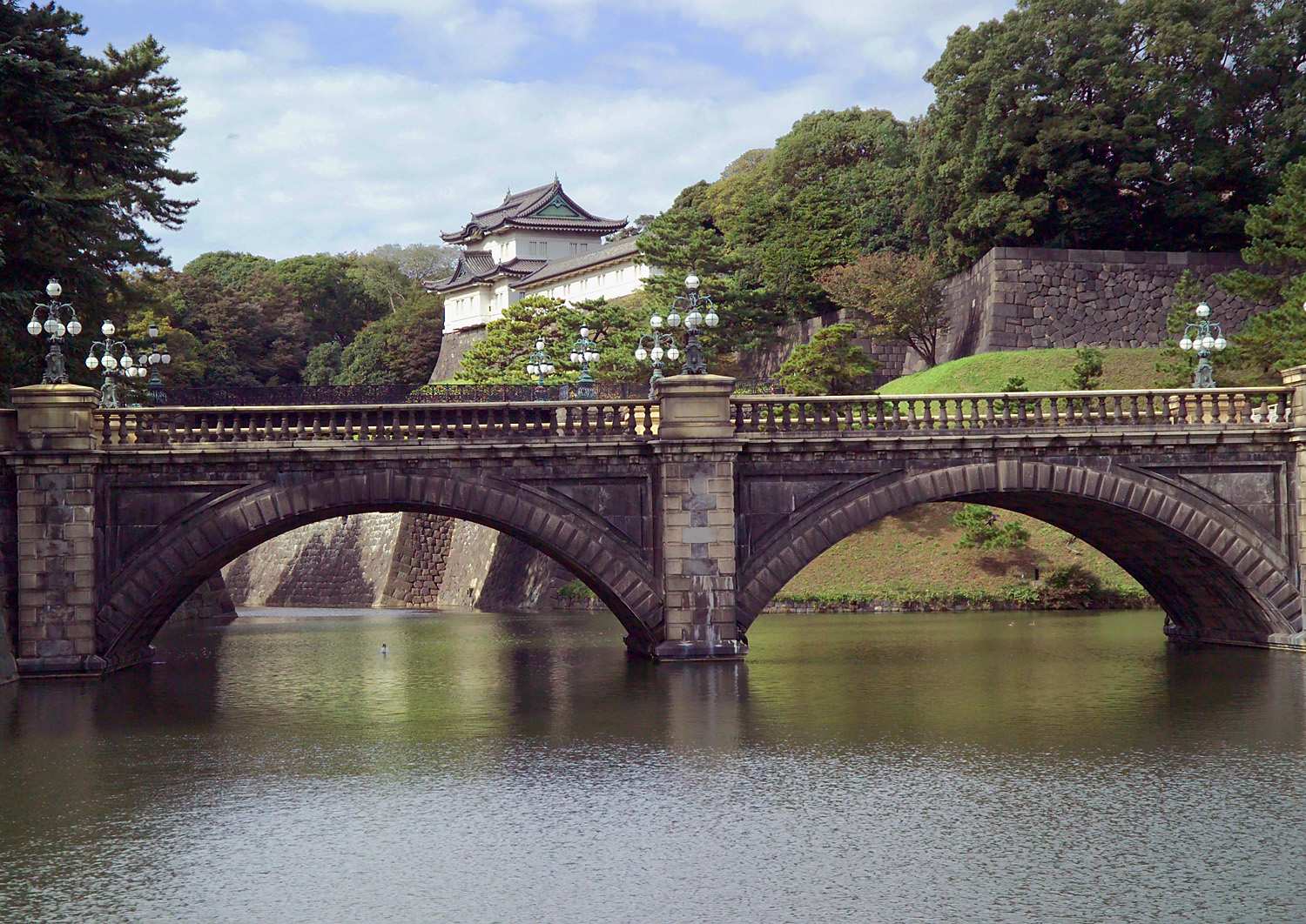 Seimon Ishibashi at the Imperial Palace (Edo Castle, Kokyo), Chiyoda, Tokyo Tokyo Kanto region Honshu Japan bridge moat I took this photograph in 2004 and contribute this image file to the public domain.